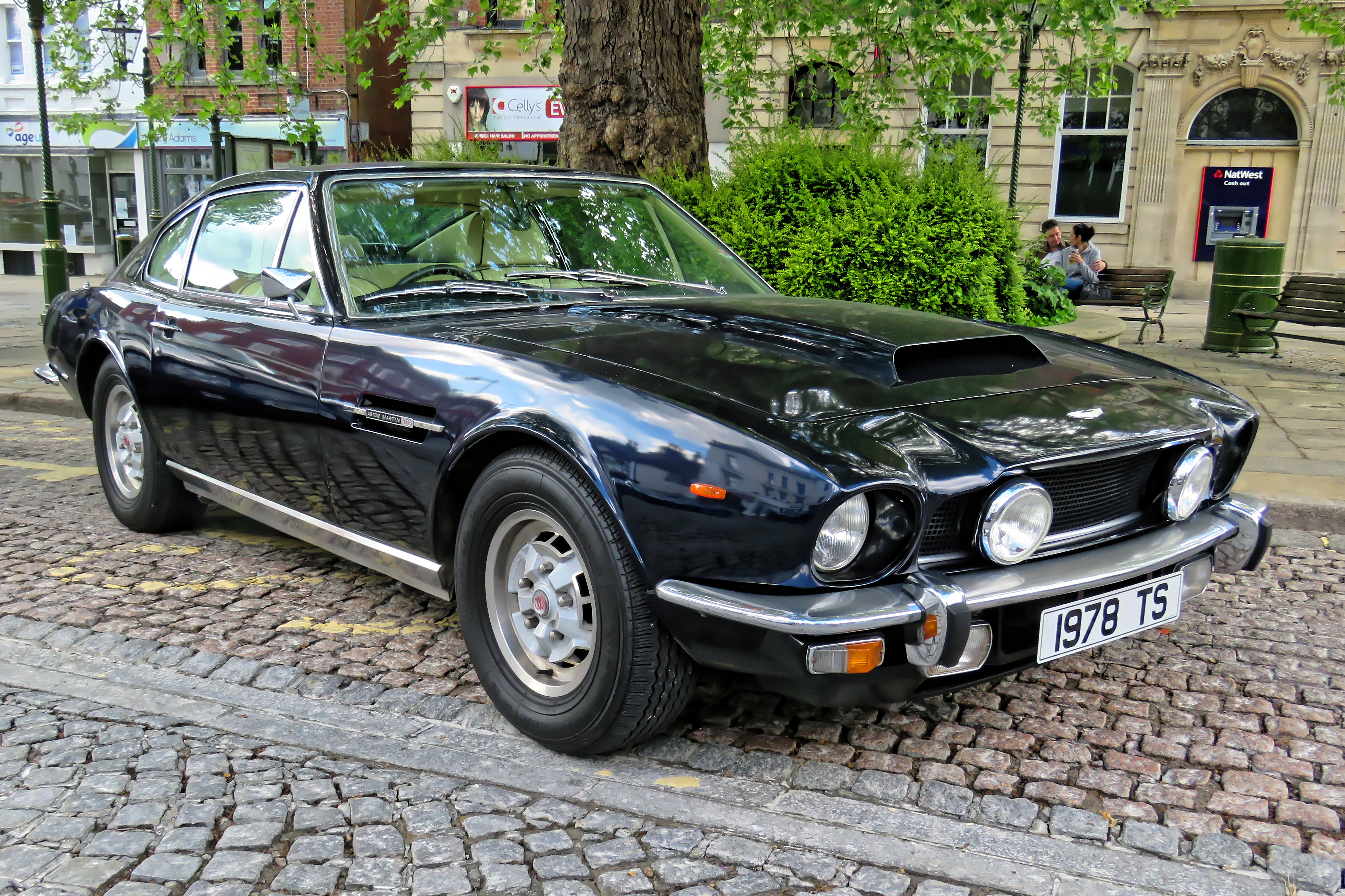 Aston Martin V8 saloon coupe 5340 cc with cream interior at Horsham English Festival 2018 at the Carfax in Horsham, West Sussex, England.Camera: Canon PowerShot SX60 HSSoftware: File lens-corrected, optimized, perhaps cropped, with DxO PhotoLab, and likely further optimized with Adobe Photoshop CS2.